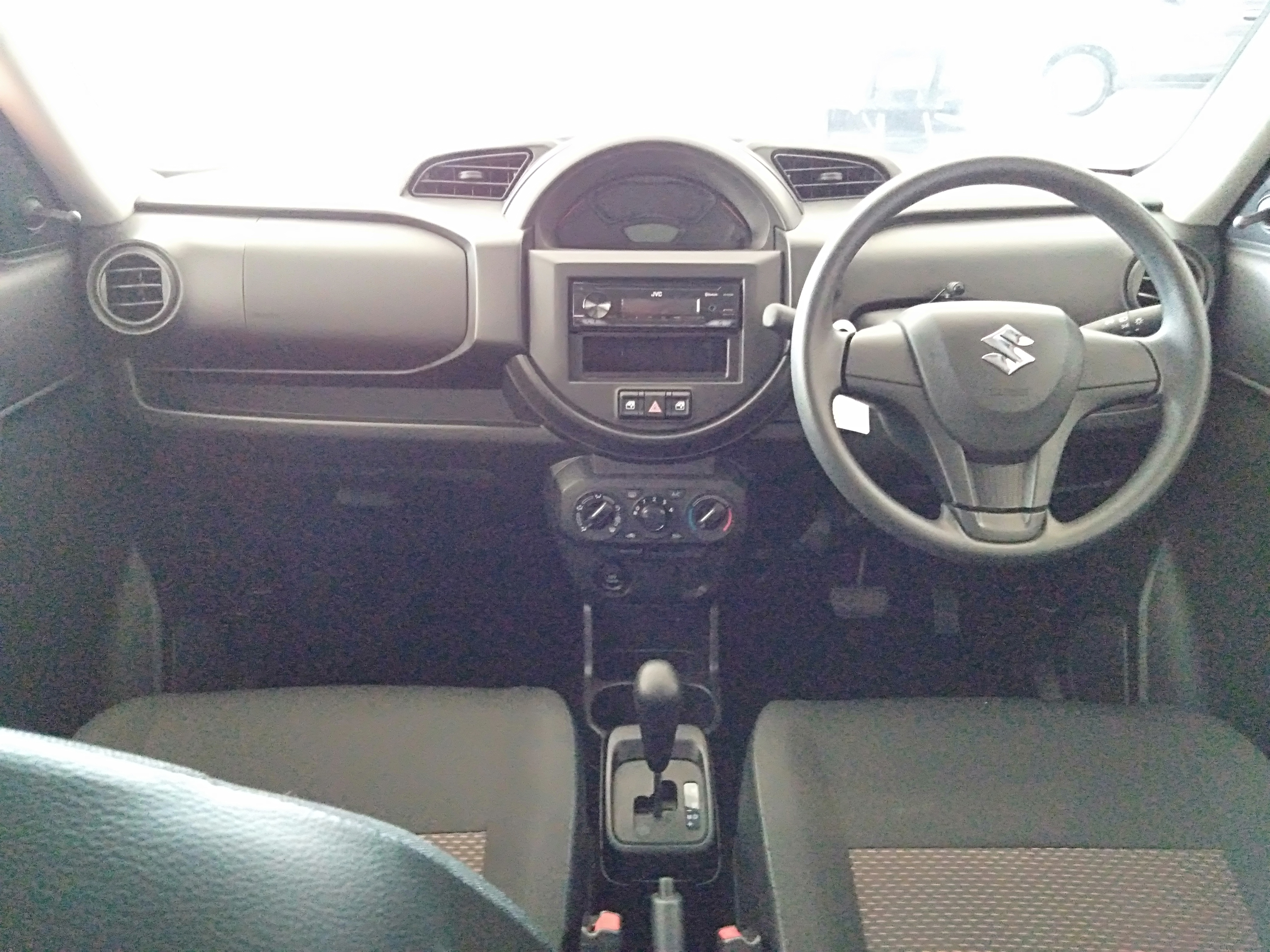 2021 Suzuki S-Presso 1.0 AMT interior view finished in Orange paint. Photographed at Boustead Suzuki showroom, Beribi, Brunei.